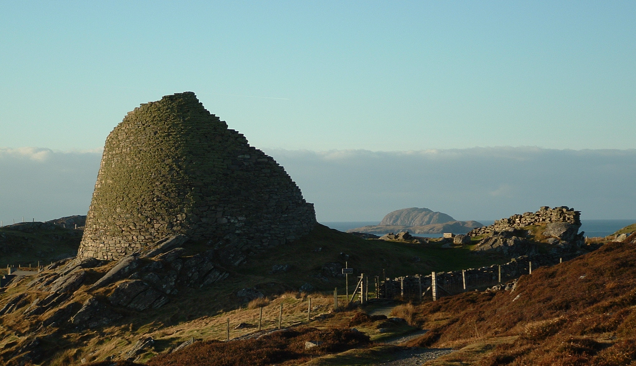 Dun Carloway Broch, on the west coast of the Isle of Lewis.